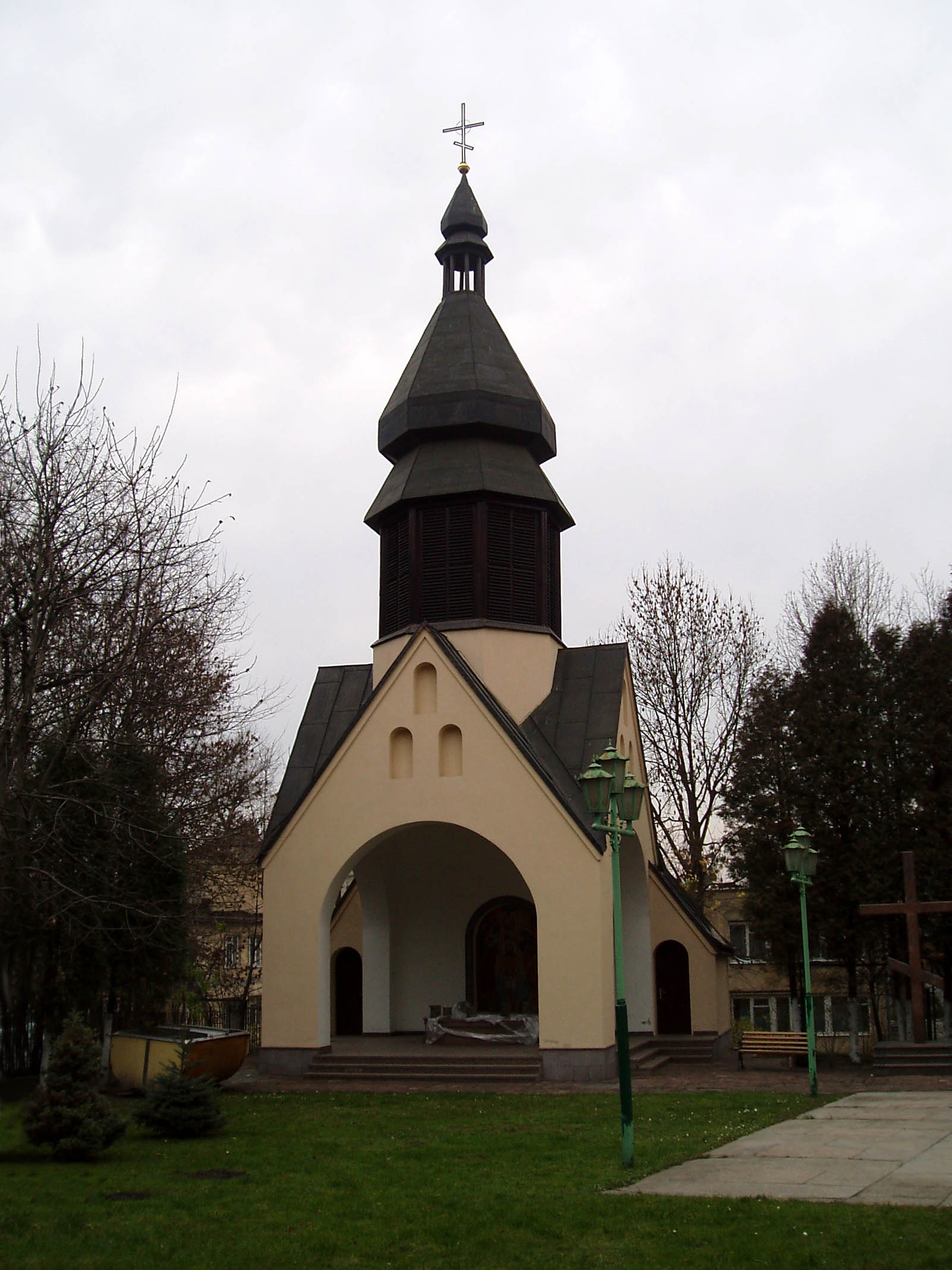 Saint Paraskeva of Iconium church in Lviv